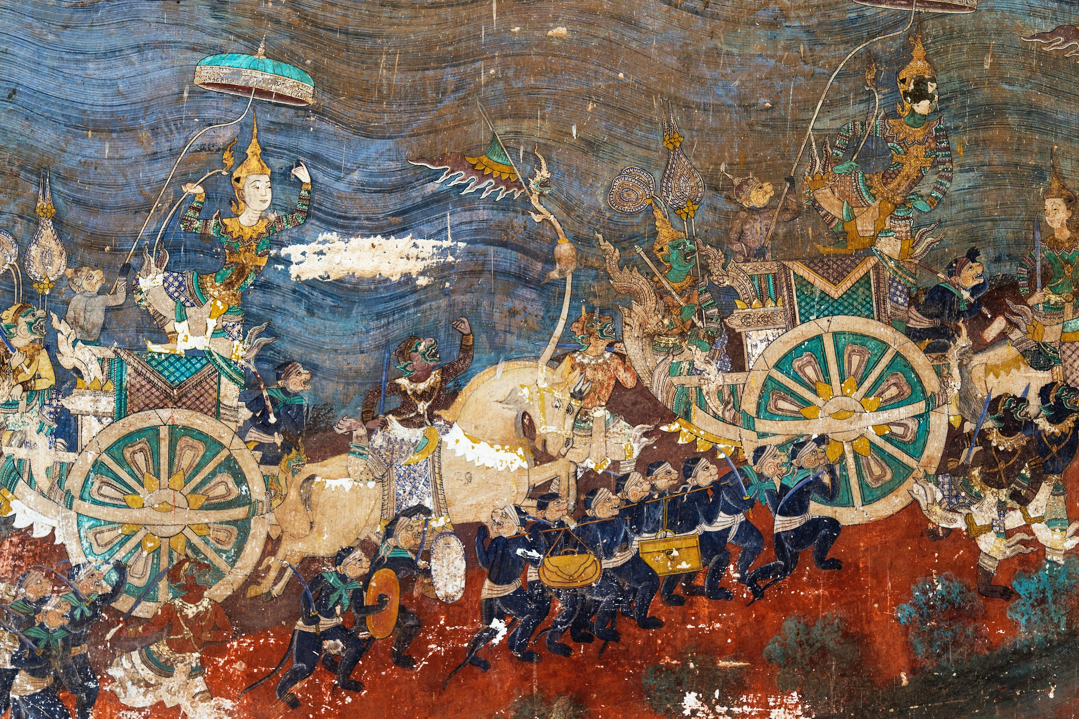 Paintings depicting scenes from the Reamker (Khmer epic poem based on the Ramayana). Royal Palace. Phnom Penh, Cambodia.